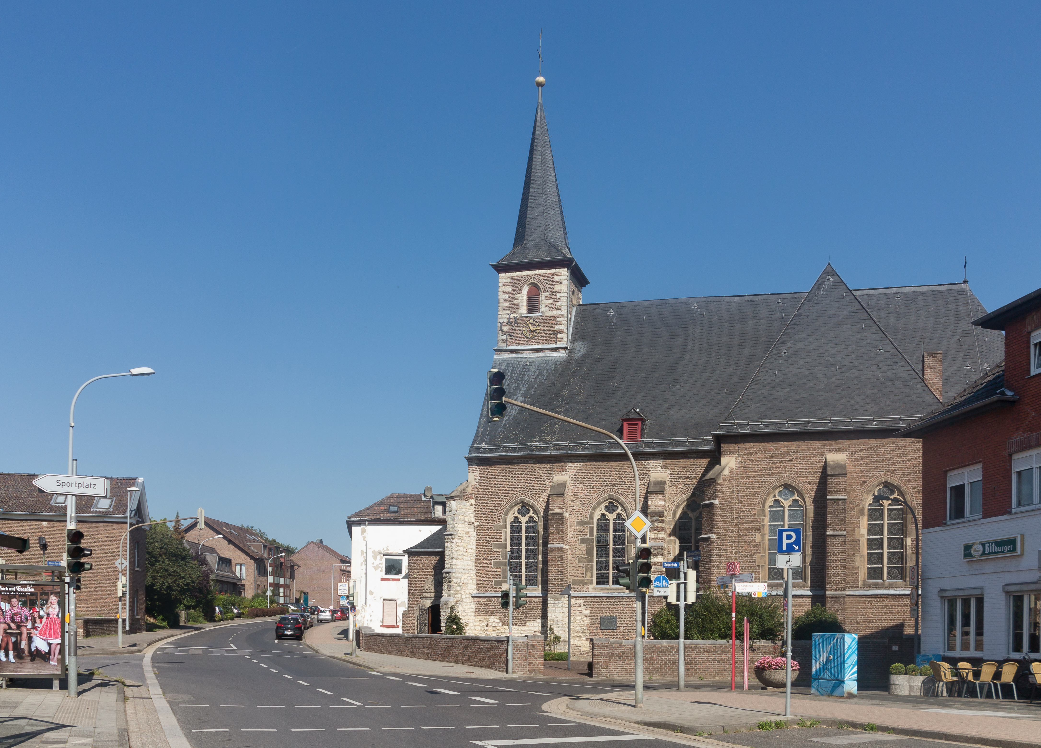 Horbach, church: die Sankt Heinrich KircheThis is a photograph of an architectural monument., no. 8